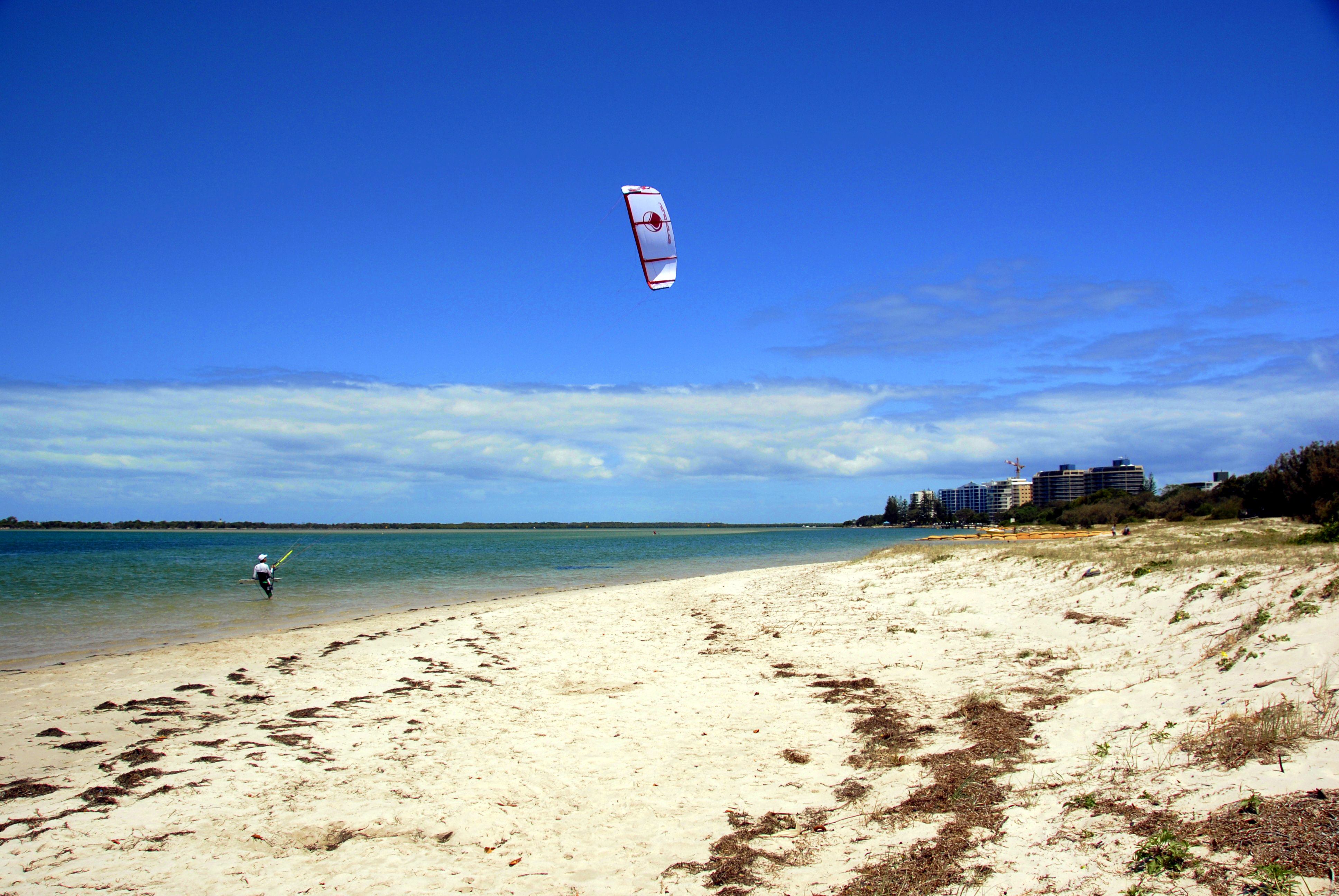 Caloundra, Queensland - Golden Beach, Kite surfing